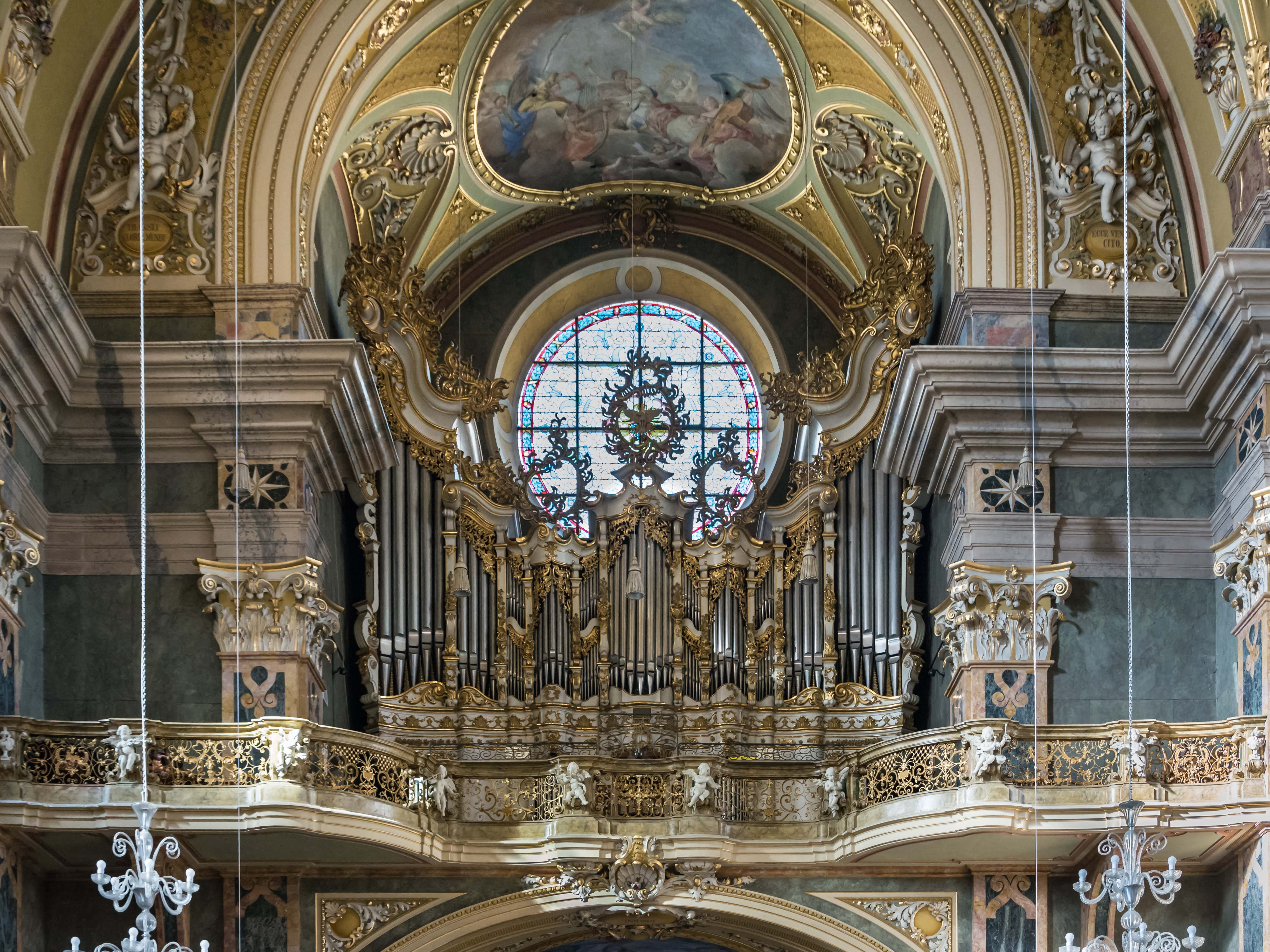 Main organ of Brixen Cathedral by Johann Pirchner (1980) in the original case of the historic organ (1756-58) by Augustin Simnacher